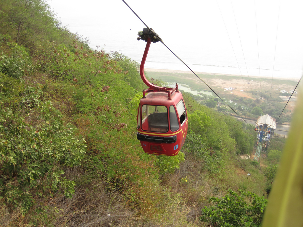 Ropeway car at Kailasagiri in Visakhapatnam